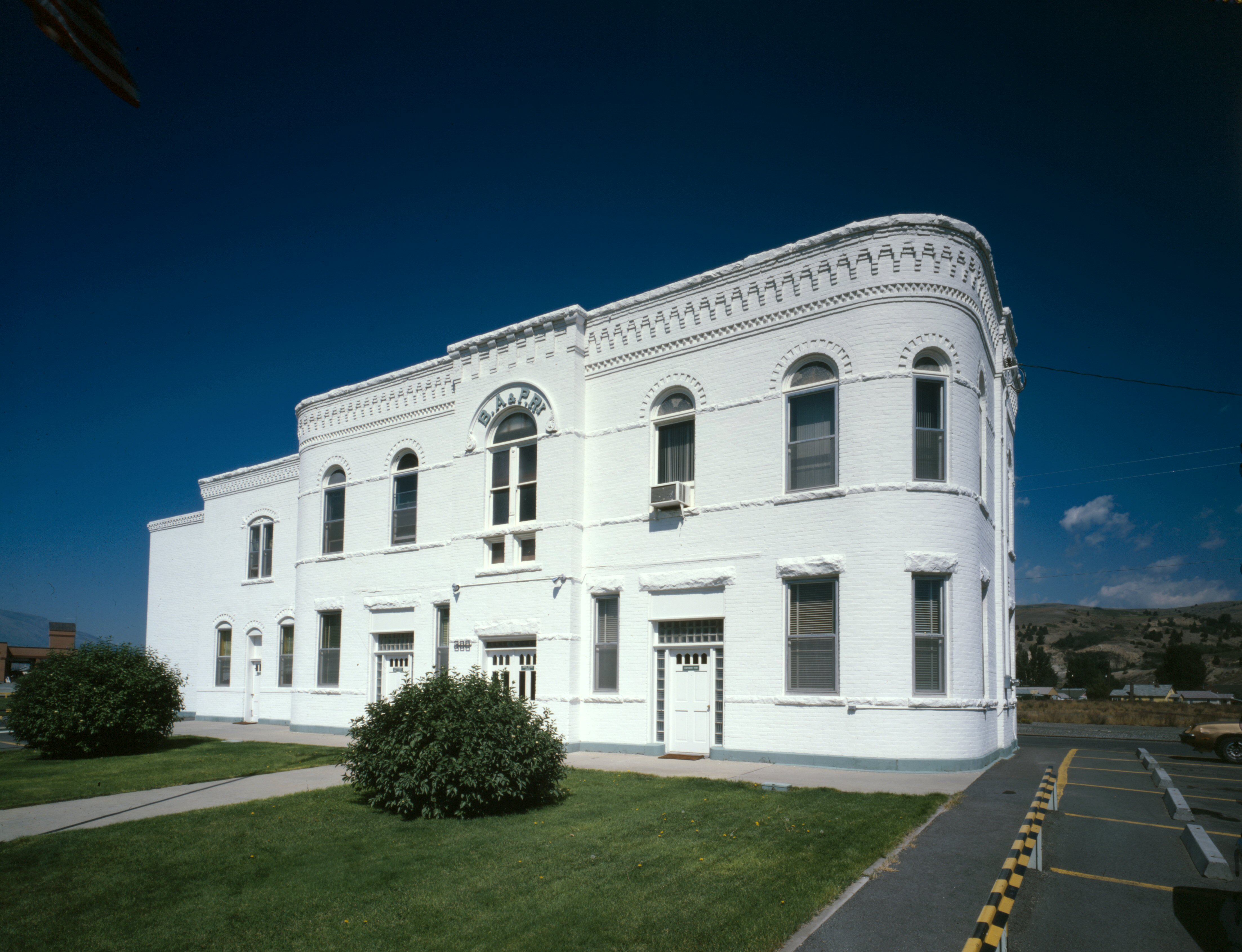 The Headquarters of the Butte, Anaconda and Pacific Railway — at 300 West Commercial Avenue, Anaconda, Montana. Historic contributing property in the Anaconda Historic District, and on the Category:National Register of Historic Places in Deer Lodge County. 1965 photograph from the HABS—Historic American Buildings Survey images of Montana.